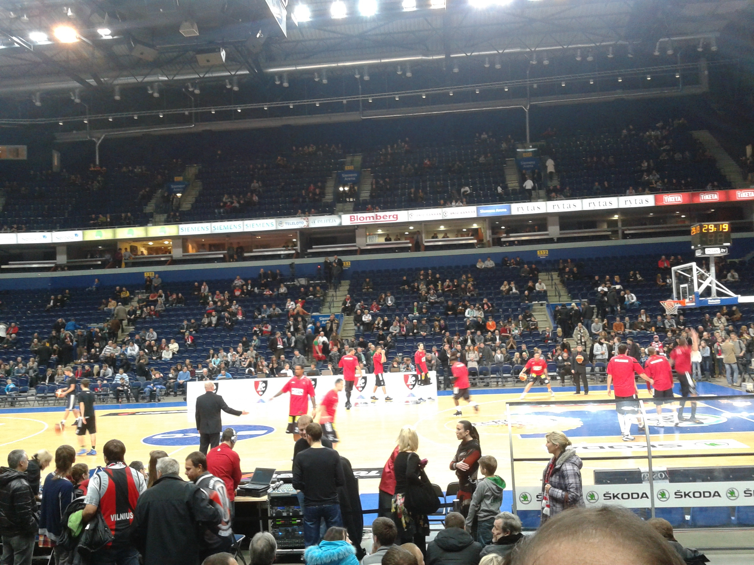 Lietuvos Rytas warming-up before the LKL game against Žalgiris.